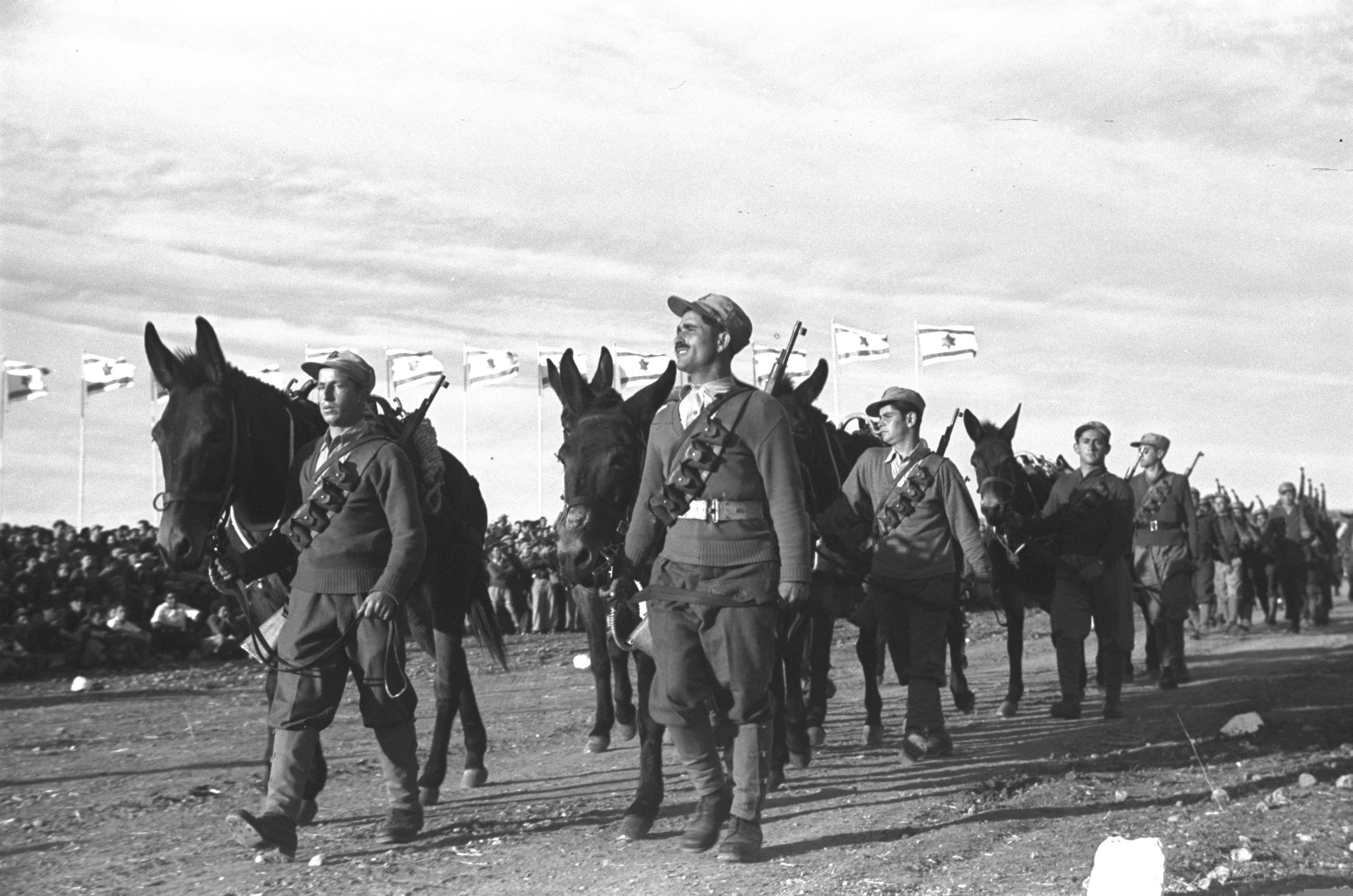 Mule section on parade at Burma Road opening ceremony.